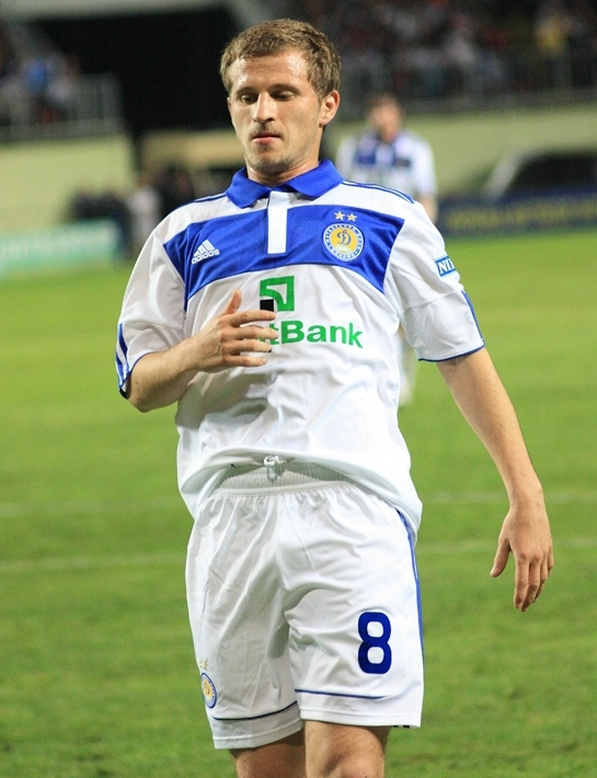 Oleksandr Aliyev